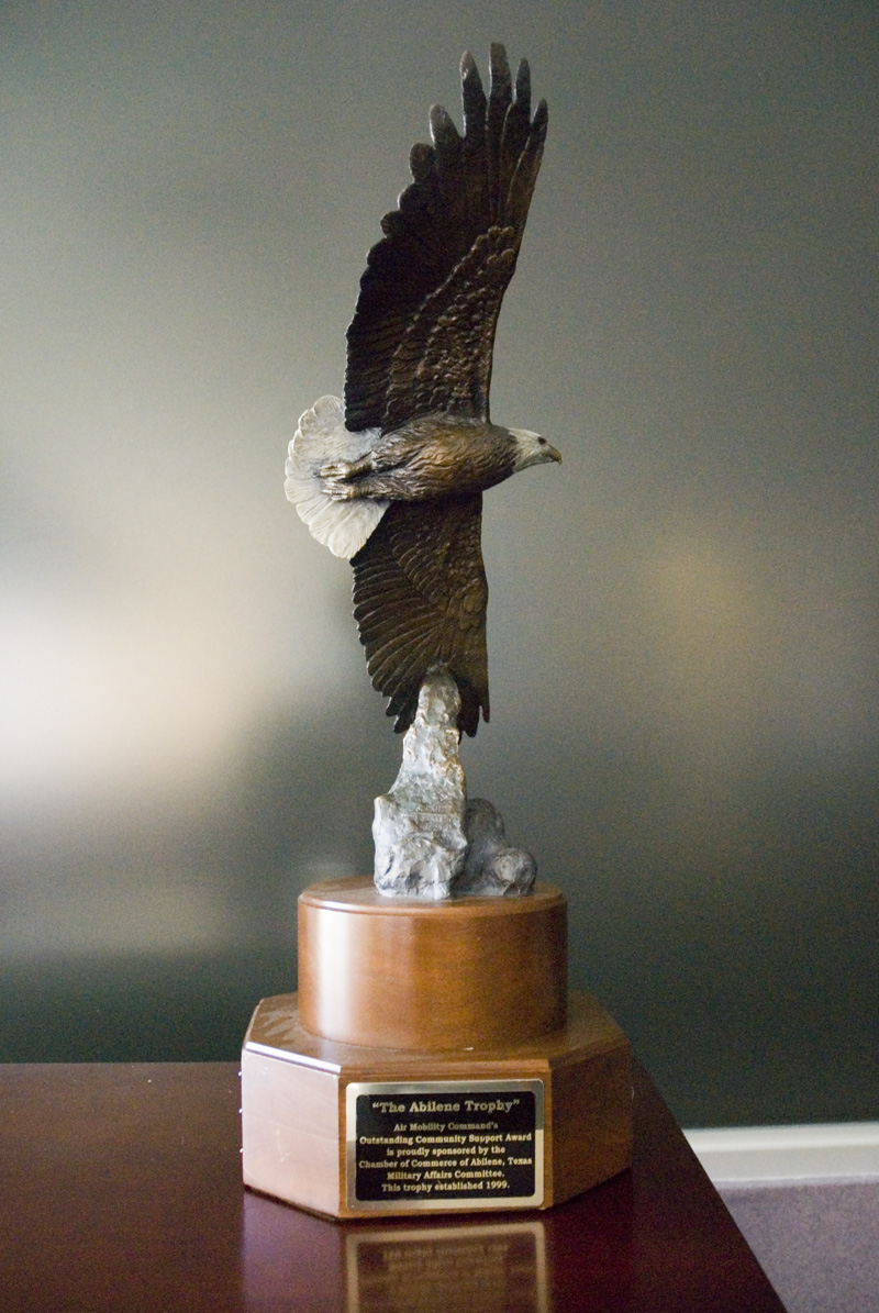 A full view of the Abilene Trophy. The inscription at the bottom reads: "The Abilene Trophy" Air Mobility Command's Outstanding Community Support Award is proudly sponsored by the Chamber of Commerce of Abilene, Texas Military Affairs Committee. This trophy established 1999. Summary A full view of the Abilene Trophy. The inscription at the bottom reads: "The Abilene Trophy" Air Mobility Command's Outstanding Community Support Award is proudly sponsored by the Chamber of Commerce of Abilene, Texas Military Affairs Committee. This trophy established 1999.